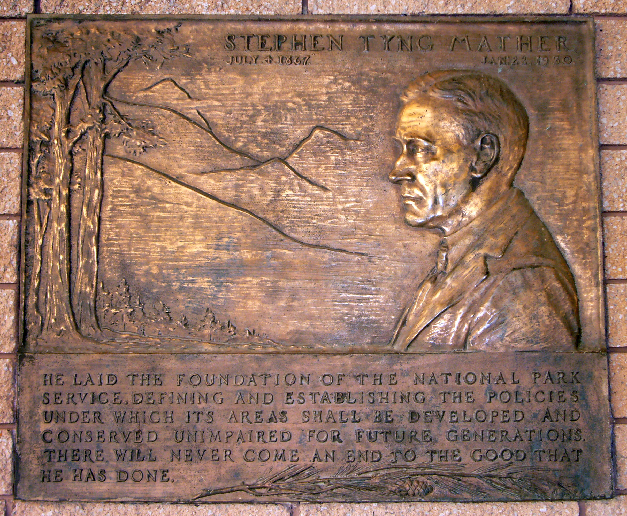 Stephen Tyng Mather plaque, Zion Human History Museum, Zion National Park, Utah, USA